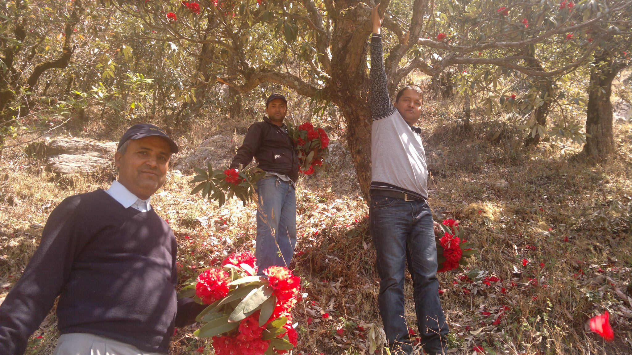 Gurase Surkhet Nepal